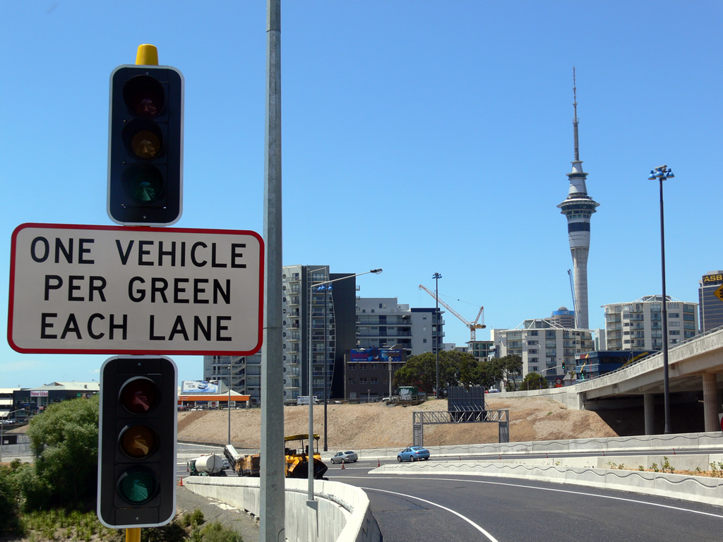 I took this photo